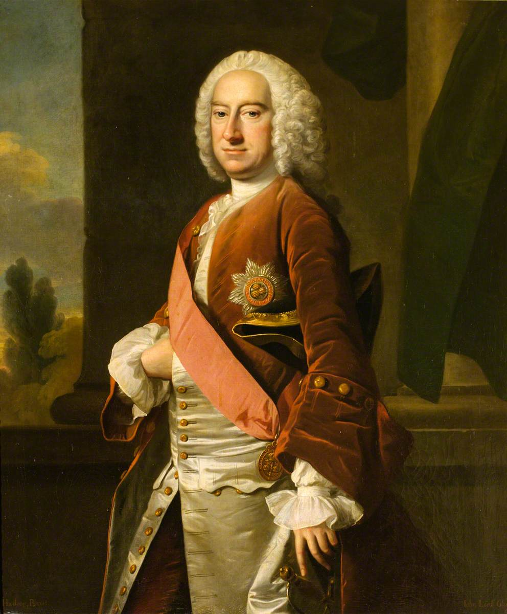 John Campbell, Lord Glenorchy, later 3rd earl of Breadalbane (1696-1782), three-quarter-length in russet coat with silver waistcoat & Order of the Bath, by a pillar INS "Hudson pinxit"